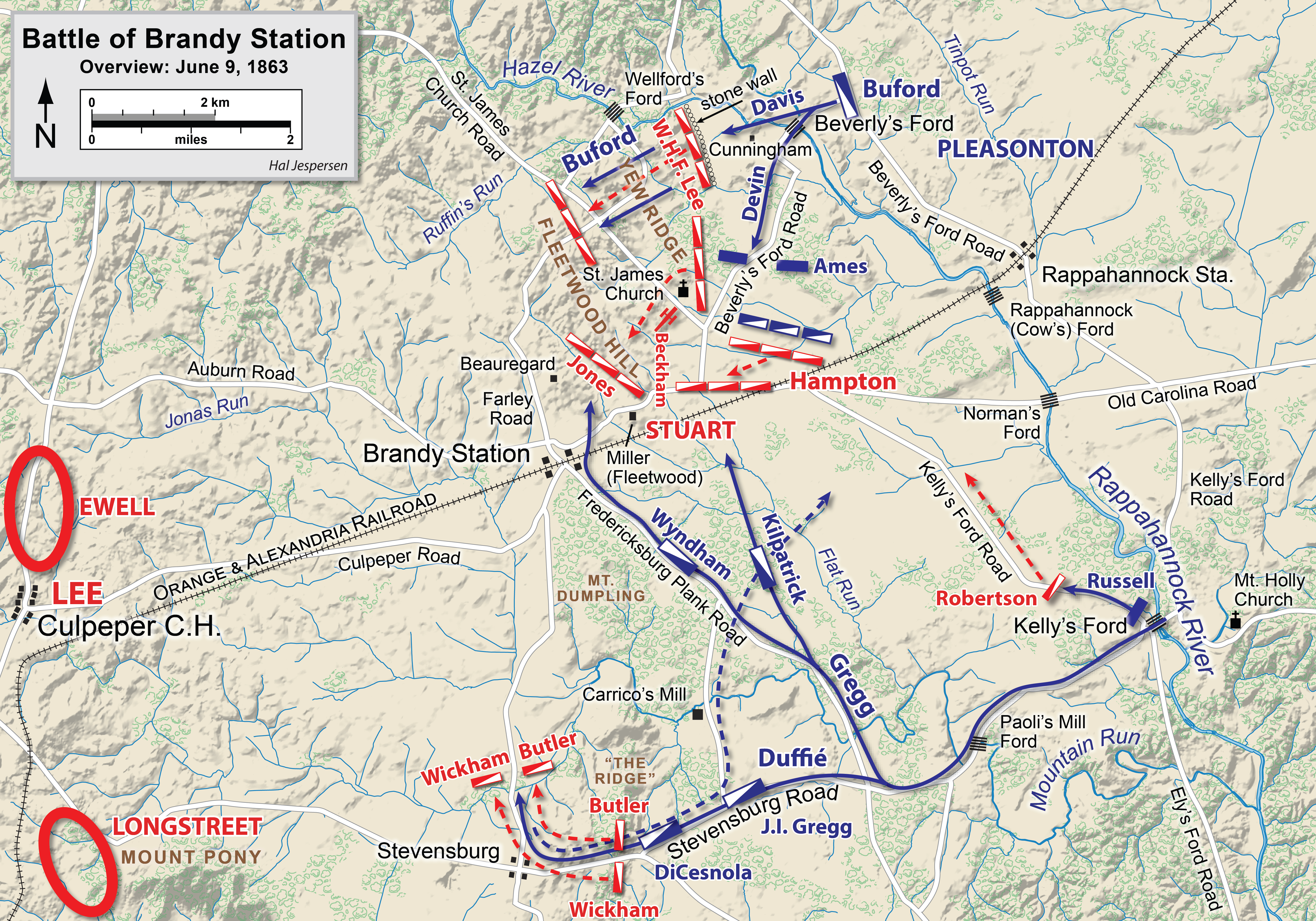 Map of the Battle of Brandy Station (overview) of the American Civil War. Drawn in Adobe Illustrator CC by Hal Jespersen. Graphic source file is available at